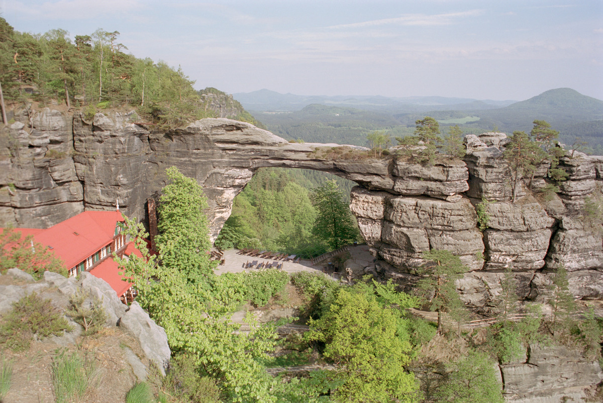 Pravčická brána (german language: Prebischtor) in the Czech Republic there is a smaller and a big one, this is the big one picture taken by me in spring 2004